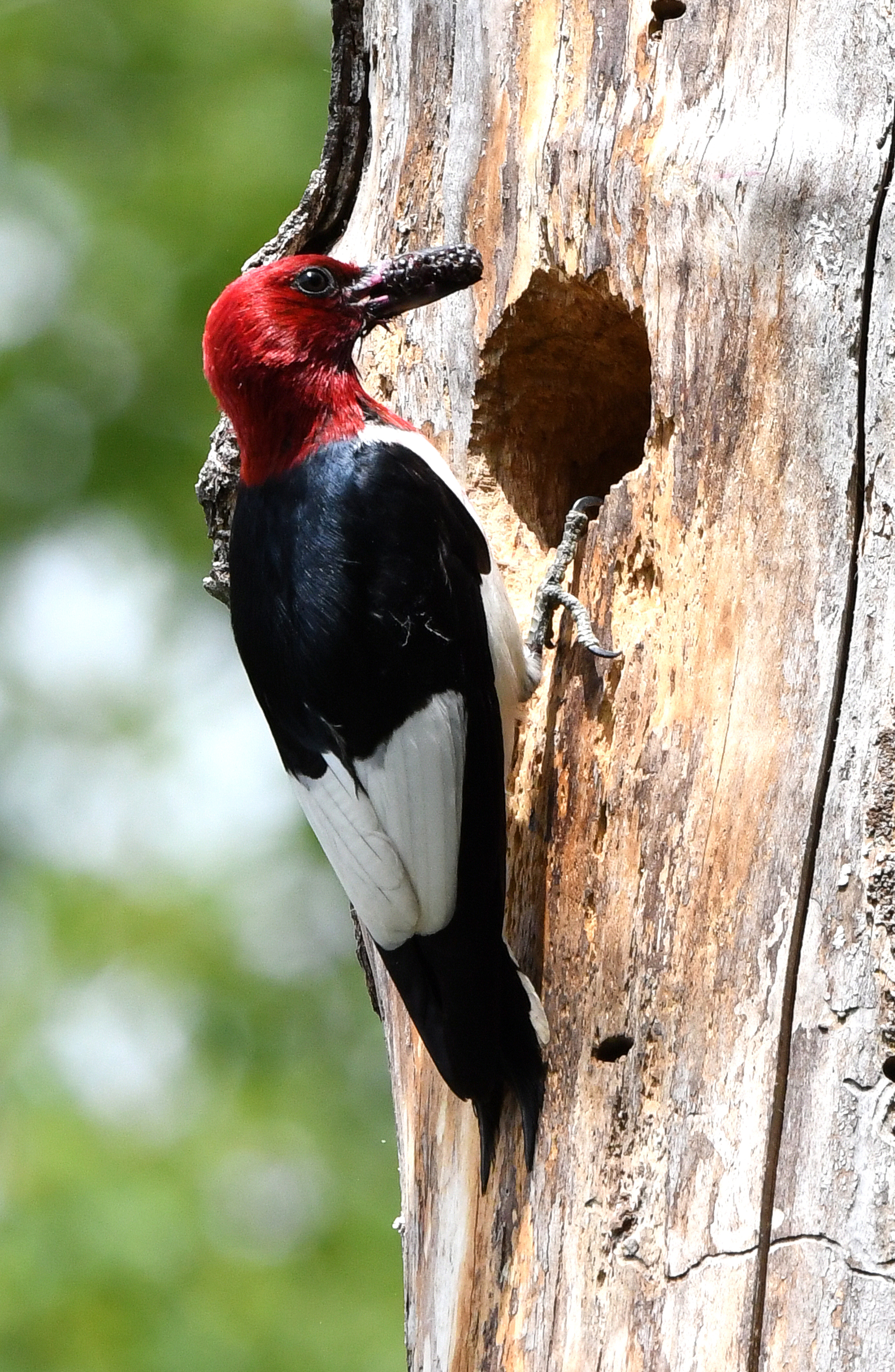 We spotted this red-headed woodpecker bringing a blackberry to its young at Malan Waterfowl Production Area in Michigan. Photo by Jim Hudgins/USFWS.